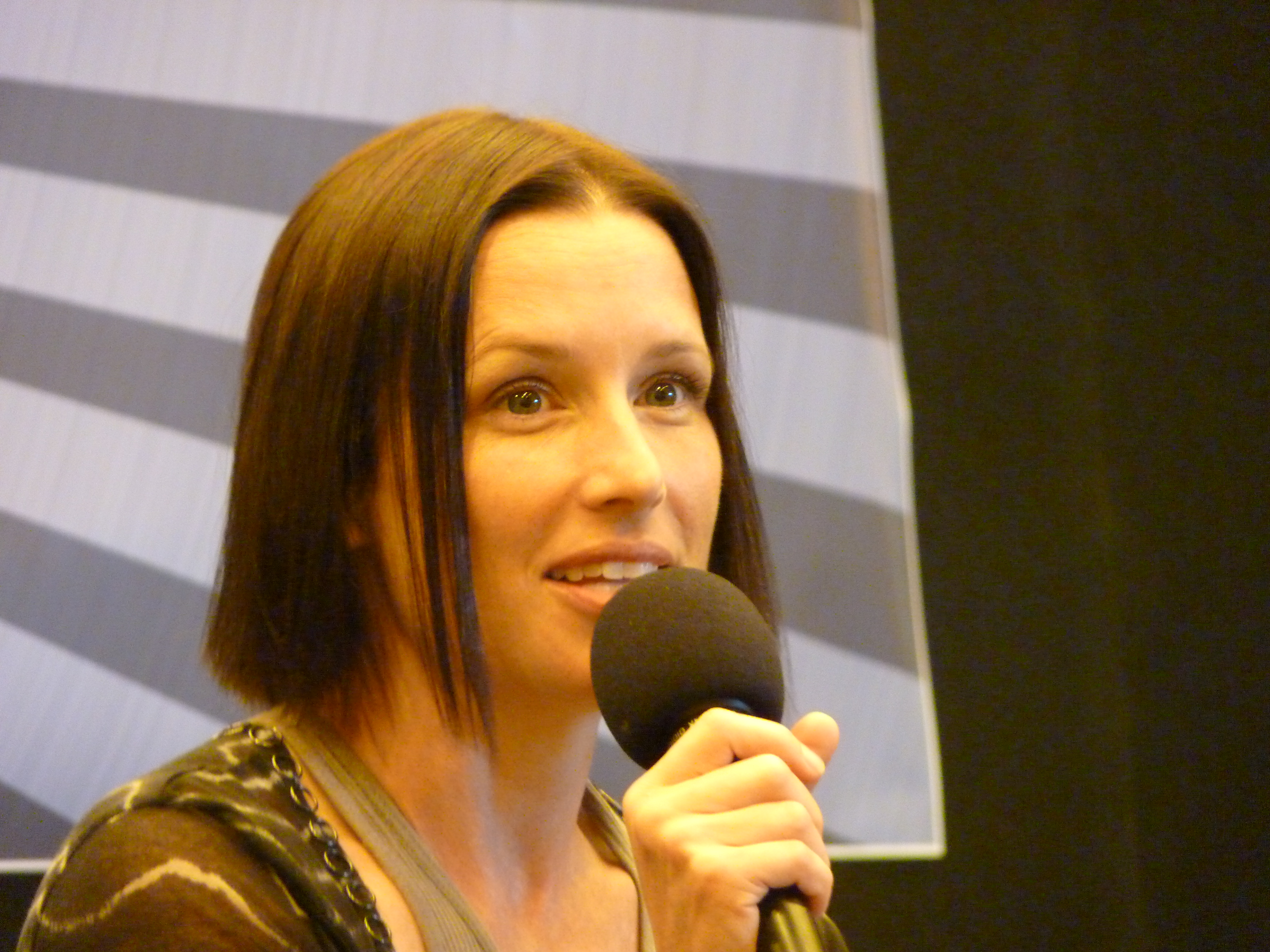 Actress Shawnee Smith